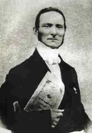 Antonio Colla (1806-1857), Italian astronomer from Parma.